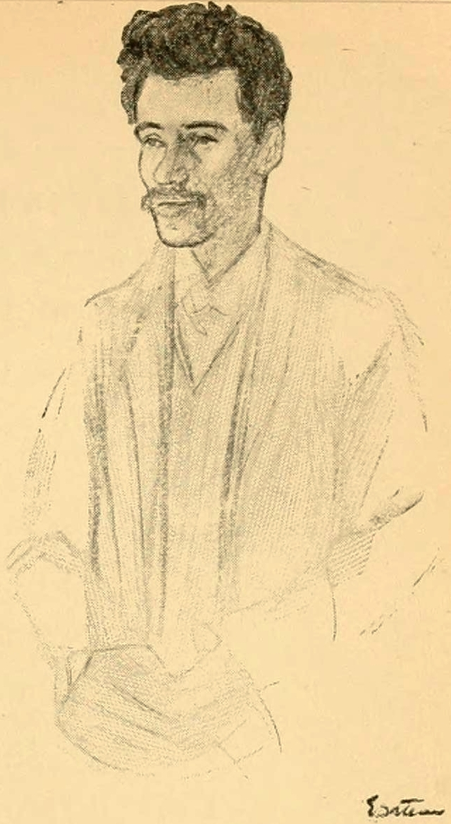 From :The spirit of the Ghetto; studies of the Jewish quarter in New York